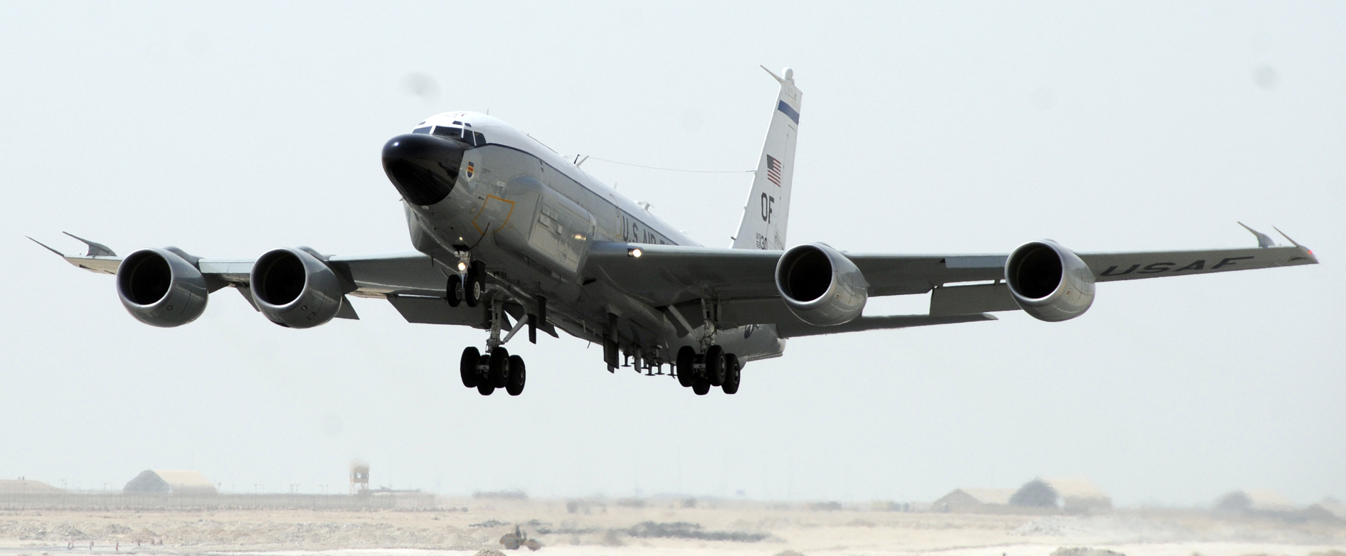 An RC-135 Rivet Joint from the 763rd Expeditionary Reconnaissance Squadron takes off for a mission, Aug. 26, 2008. The 763 ERS supports theater and national-level consumers with near real-time on-scene intelligence collection, analysis and dissemination.